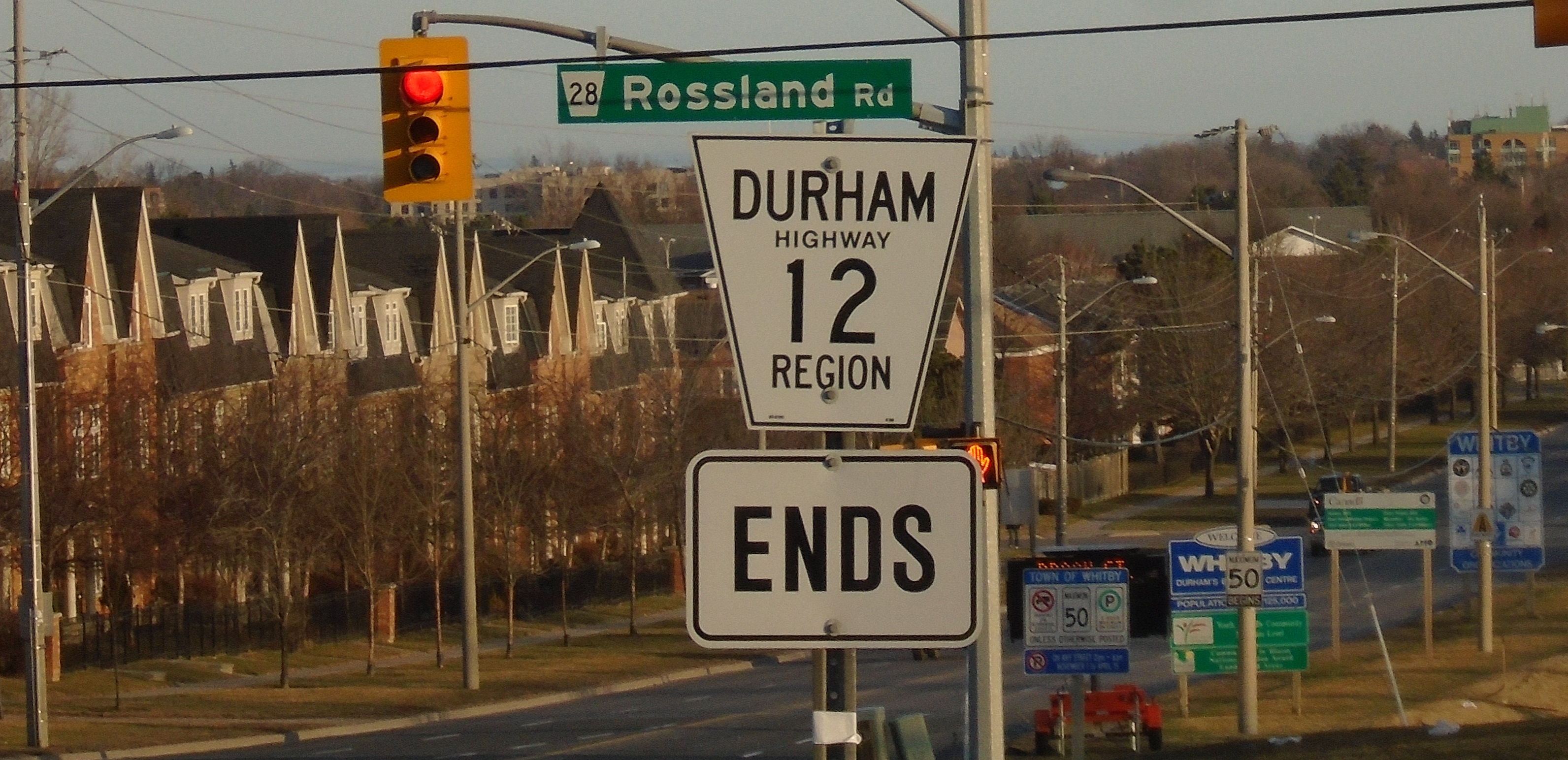 Photograph of a municipal route marker with ENDS tab for Regional Highway 12 of Durham Region. Traffic lights at Durham Road 28 are visible in the background.